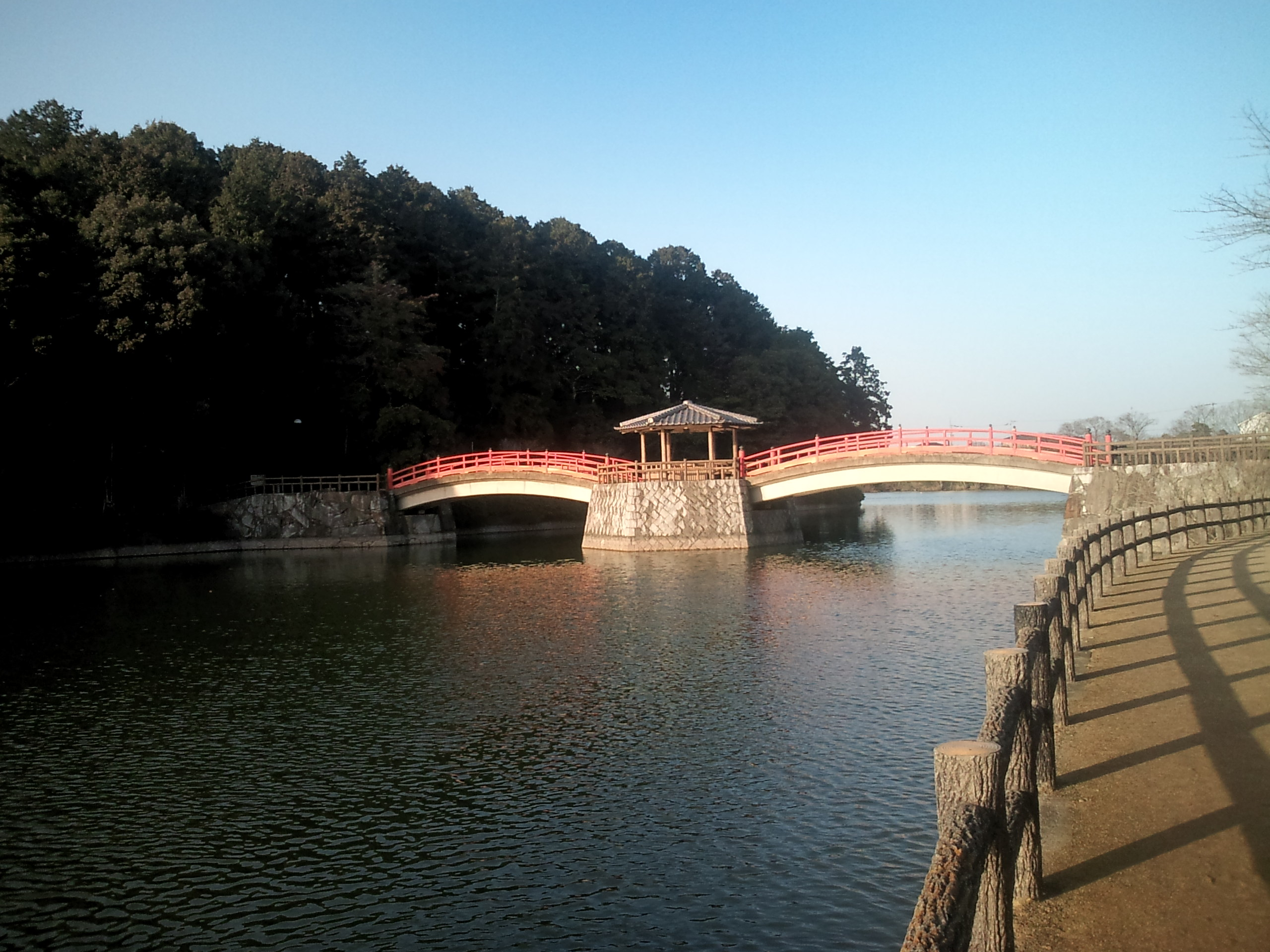 The part of the Kagawa Prefectural Kikaku Park in Sanuki-city Kagawa Japan. Sakura-bashi(bridge) where an Kame-jima(island) and Nagao sports park are tied